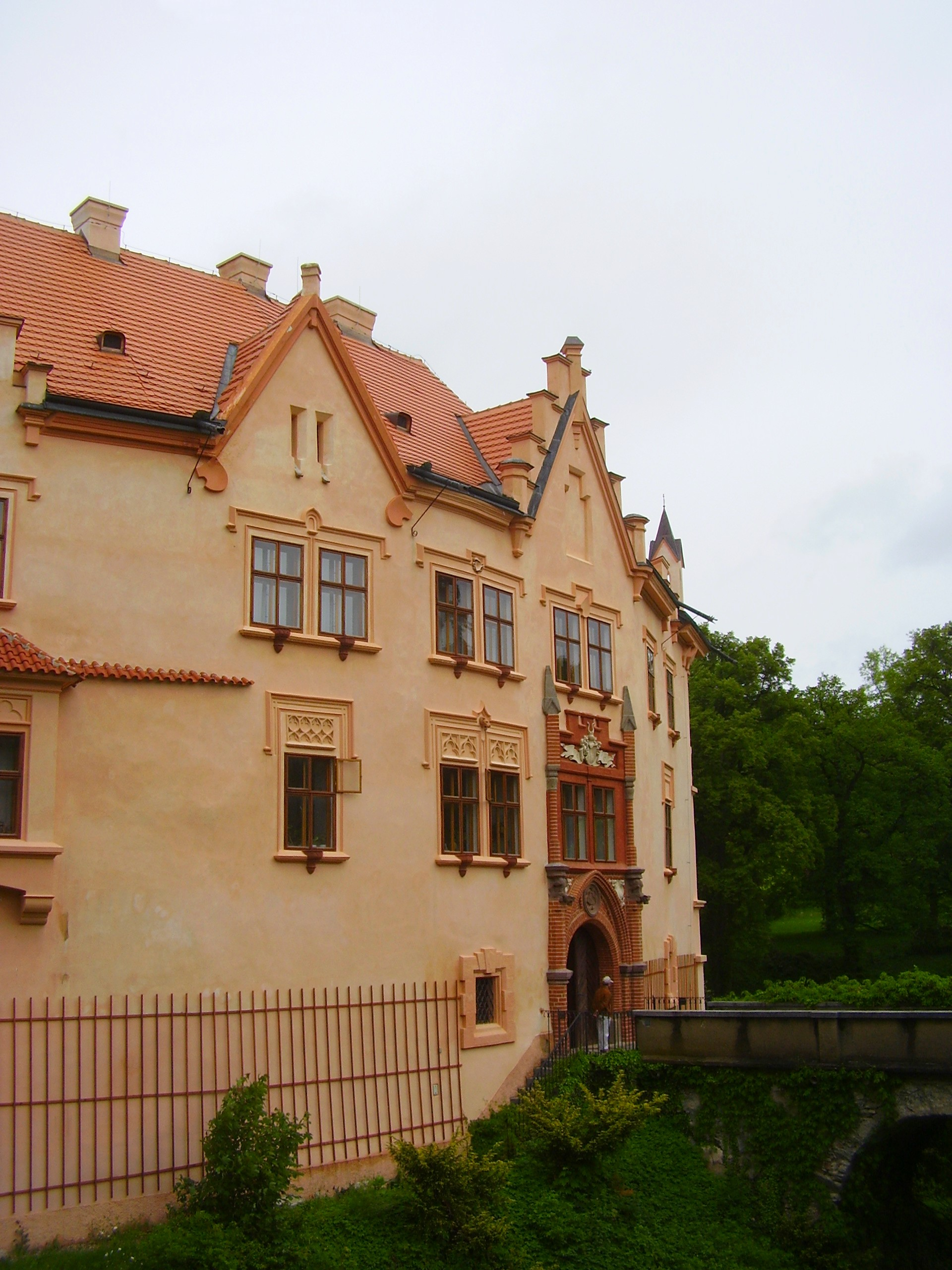 Vrchotovy Janovice castel, Central Bohemian Region